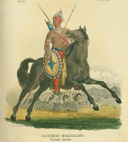 Cacique Apache (Apache Chief) from the book Costumes civils, militaires et réligieux du Mexique (Belgium, 1828)